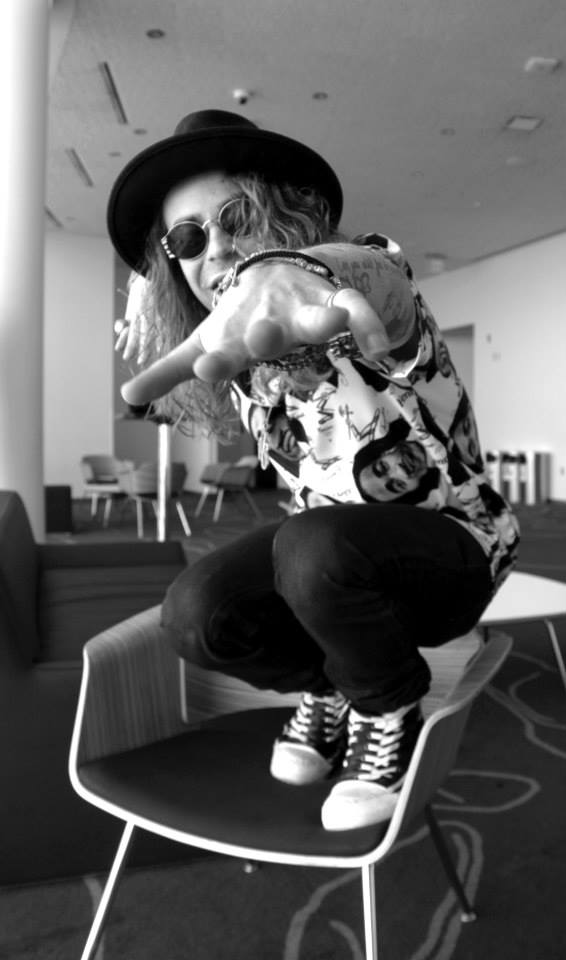 Mod Sun ModSun Hippy Hop Derek Smith